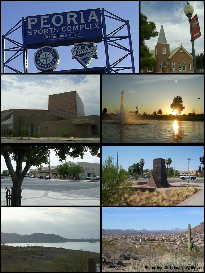 Photos taken by Christian M. Williams in Peoria, AZ between 2004-2011. From top left to bottom right: Peoria Sports Complex sign, Peoria Presbyterian Church, Peoria Center for the Performing Arts, Rio Vista Community Park, Old Town Peoria, Pioneer Memorial Statue, Lake Pleasant, view of WestWing Mountain from Sunrise Mountain I ,Christian M. Williams,am uploading this image.